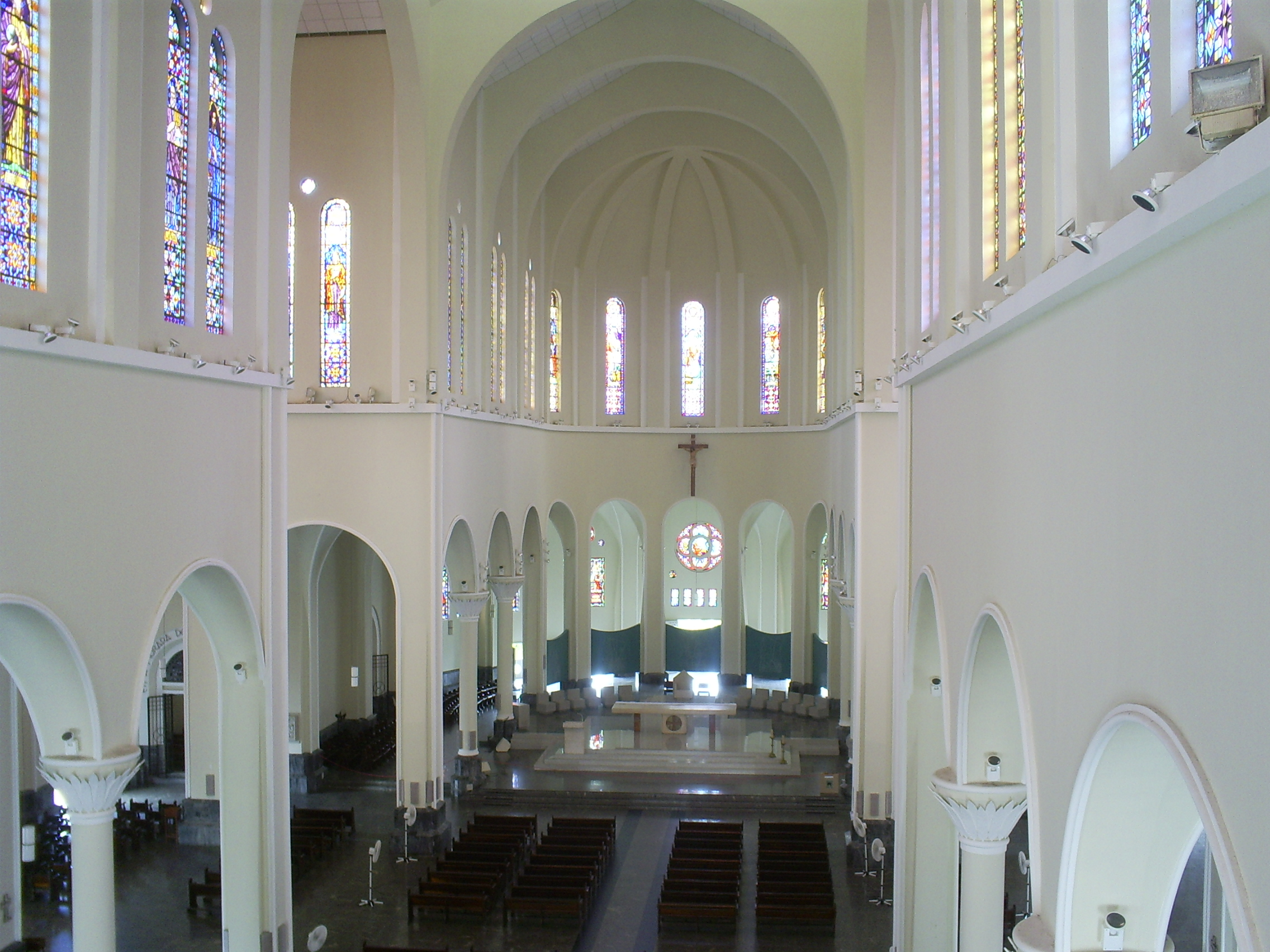 Picture inside of Fortaleza Metropolitan Catedral